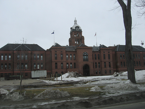 Cass County (North Dakota) Courthouse